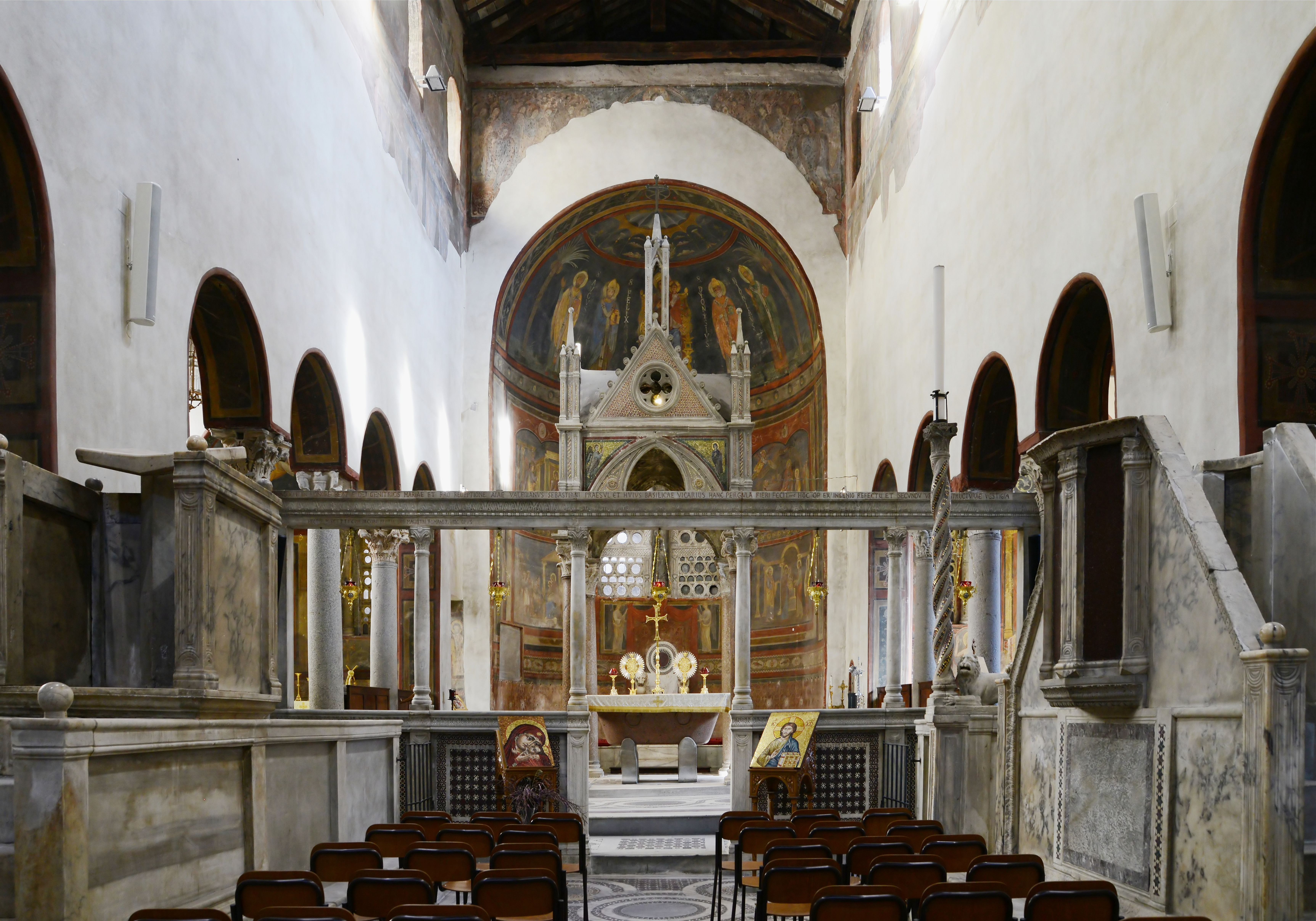 The church of Santa Maria in Cosmedin, Rome